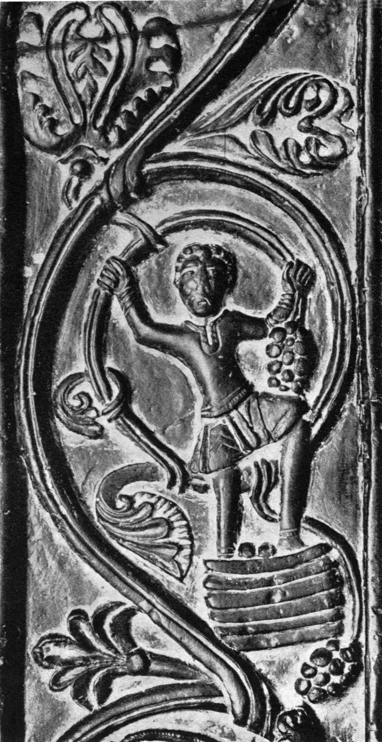 Gniezno Cathedral door detail